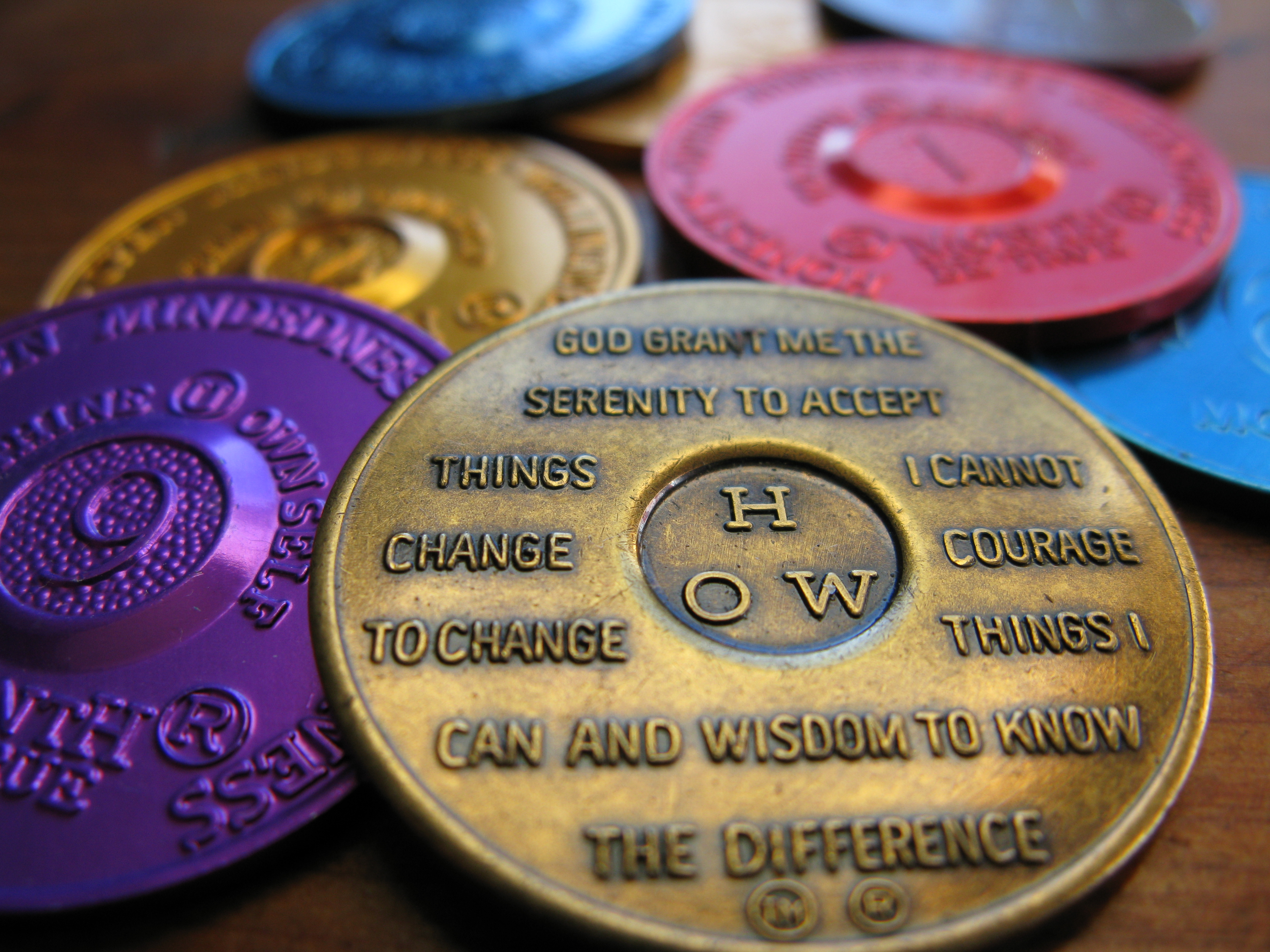 One day at a time